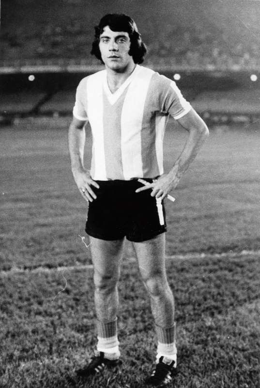 Miguel Brindisi playing for the Argentina national team.